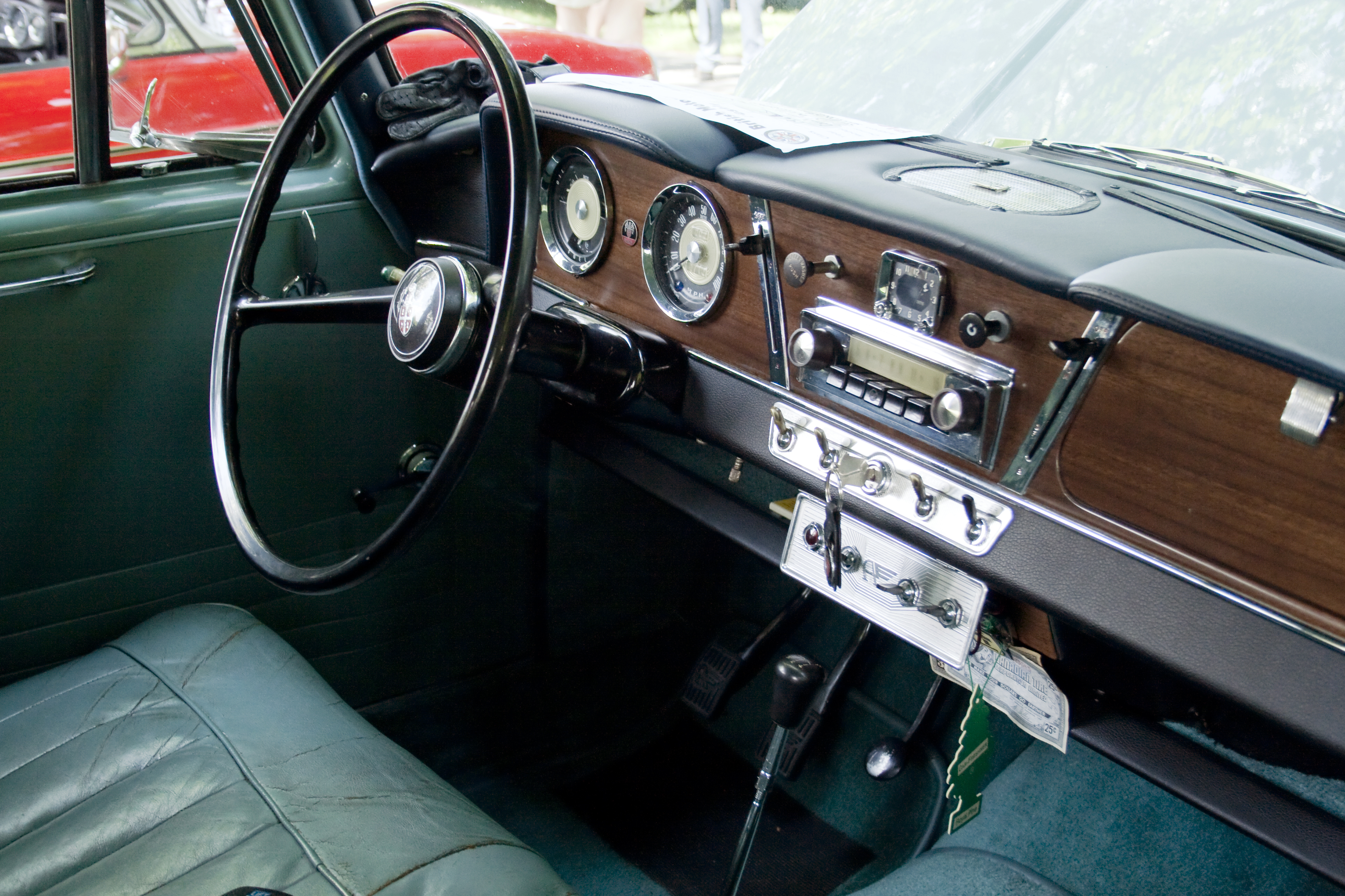 1962 Austin A60 Interior